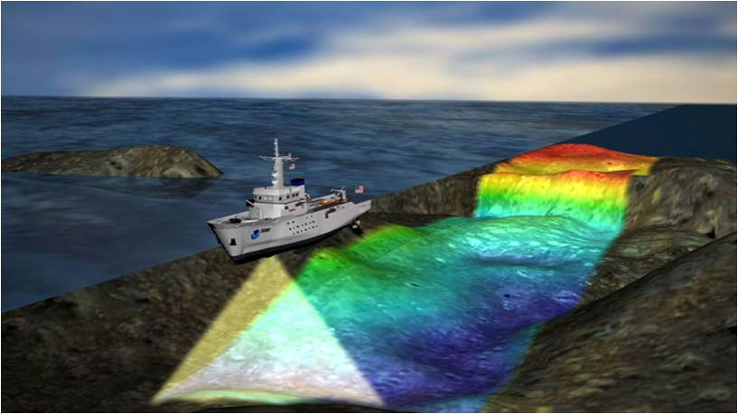 seabeam